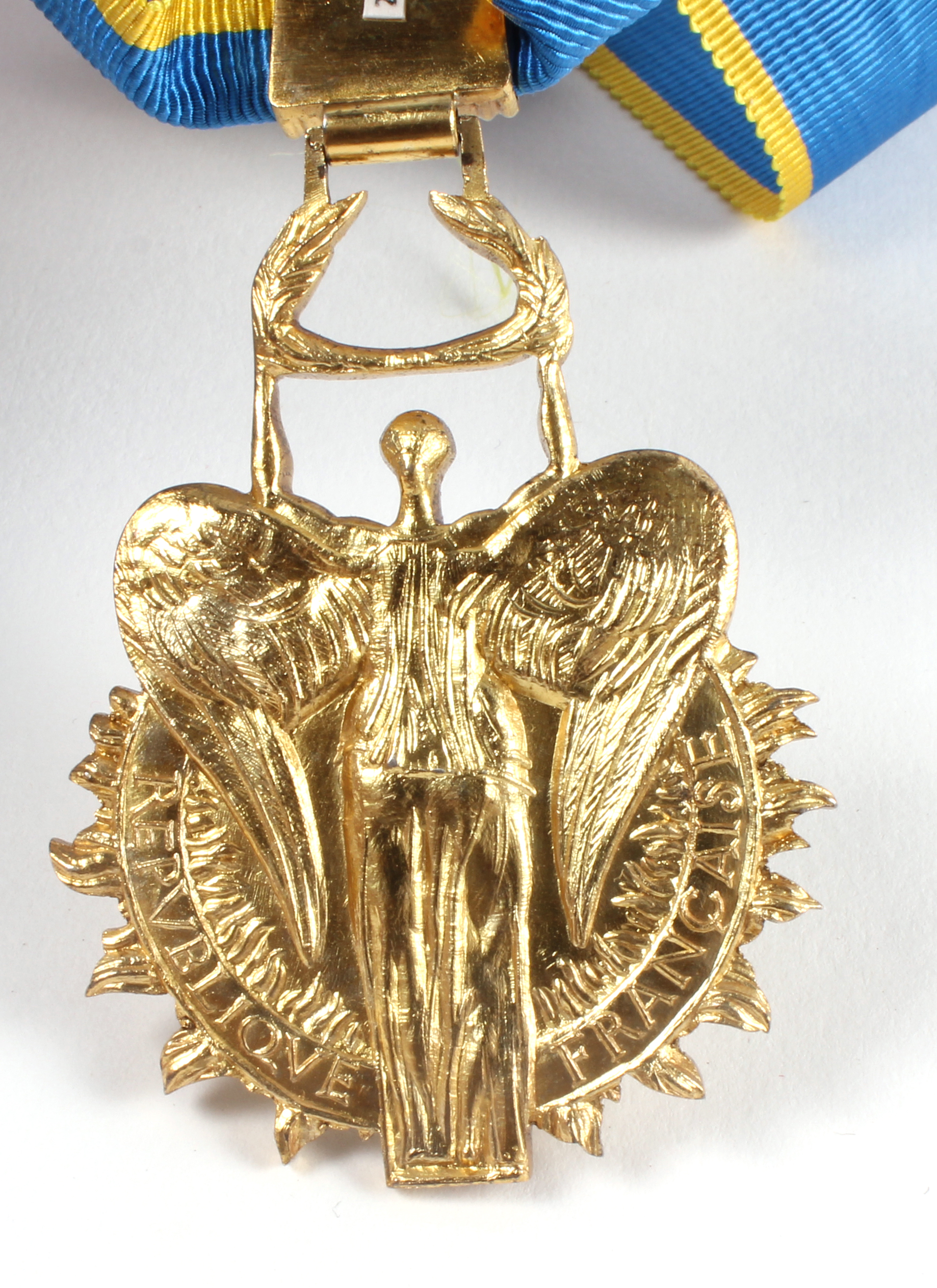 Republic of France- Commander of the Order of Sports Merit Merite Sportif Badge of the Order on a neck ribbon Case of issue Lapel rosette Newspaper clipping- "Le Figaro 17-6-60" "SIR EDMUND HILLARY - recoit les insignes - de commandeur du Merite sportif Sir Edmund Hillary, vainqueur de l’Everest, a recu, hier après-midi de M. Maurice Herzog, vainqueur de l’Annapurna et haut commissaire a la Jeunesse et aux sports, les insignes de commandeur du Merite sportif. Cette decoration, creee il ya deux ans, n’avait ete, jusqu’a present, decernee qu’a de tres grands sportifs francais et a deux etrangers. Apres la ceremonie, Maurice Herzog et Hillary ont longuement parle de la prochaine expedition de ce dernier dans l’Himalaya."